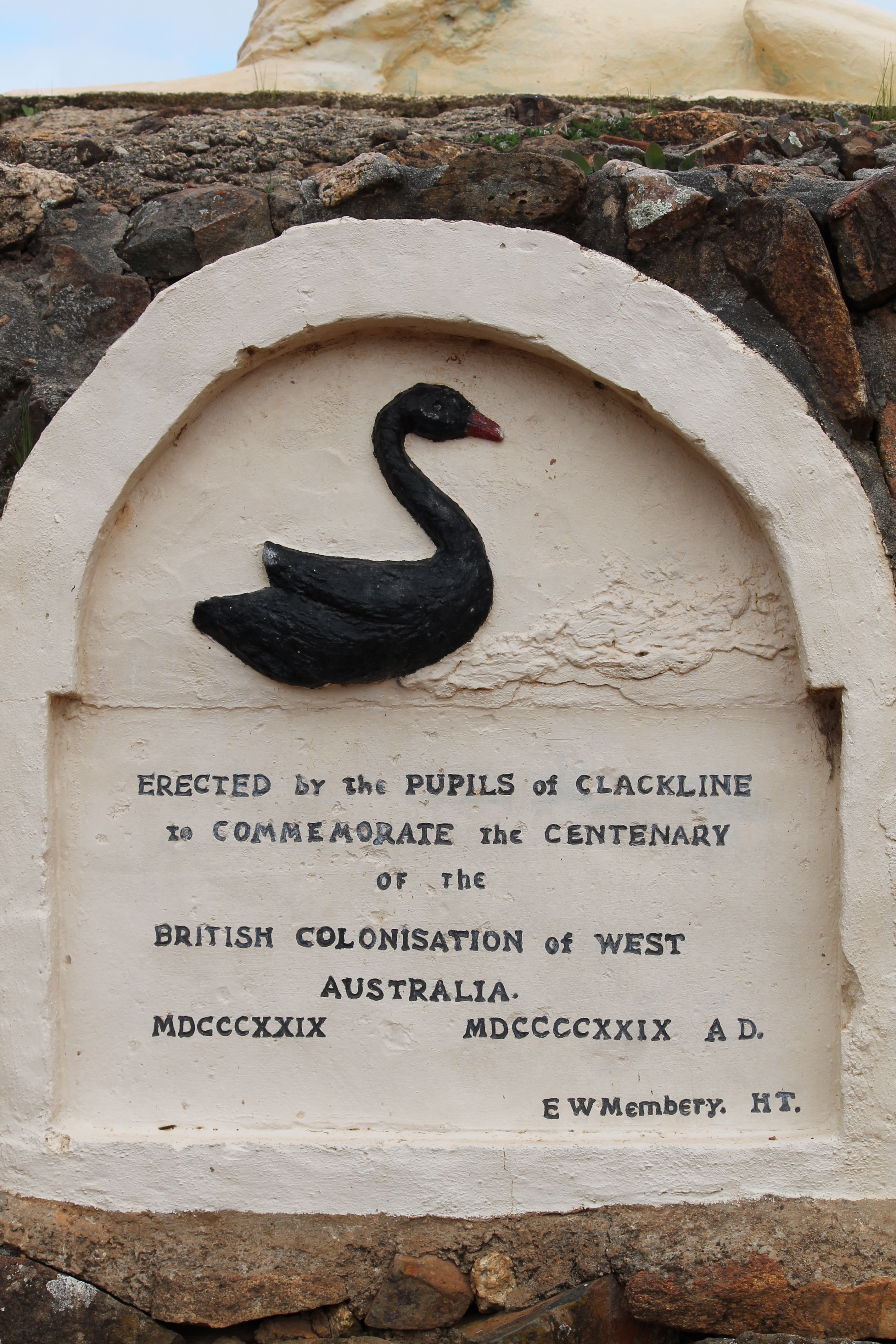 Centenary of Western Australia 1929, Clackline Lion Monument plaque